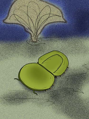 Reconstruction of the nektaspid trilobite, Pseudonaraoia hammoni, of Middle Ordovician Bohemia.